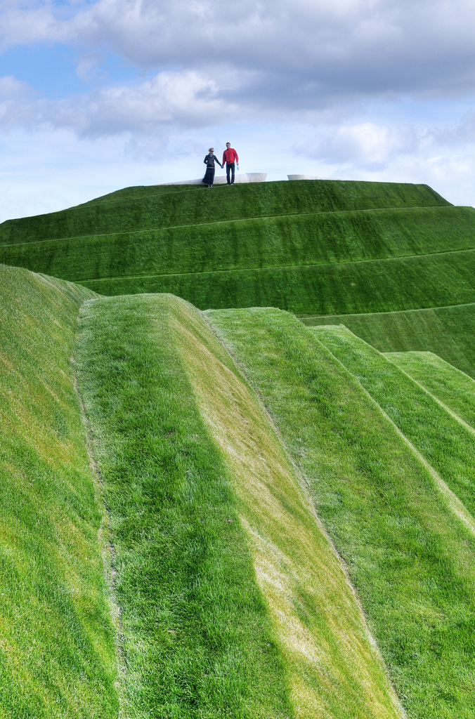 'Life Mounds' by Charles Jencks at Jupiter Artland, West Lothian, Scotland